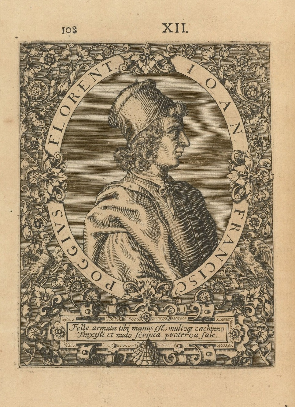 Engraving of Gian Francesco Poggio Bracciolini. From Icones quinquaginta virorum illustrium, 1597, by Jean Jacques Boissard (1528-1602). Typ 520.97.225, Houghton Library, Harvard University